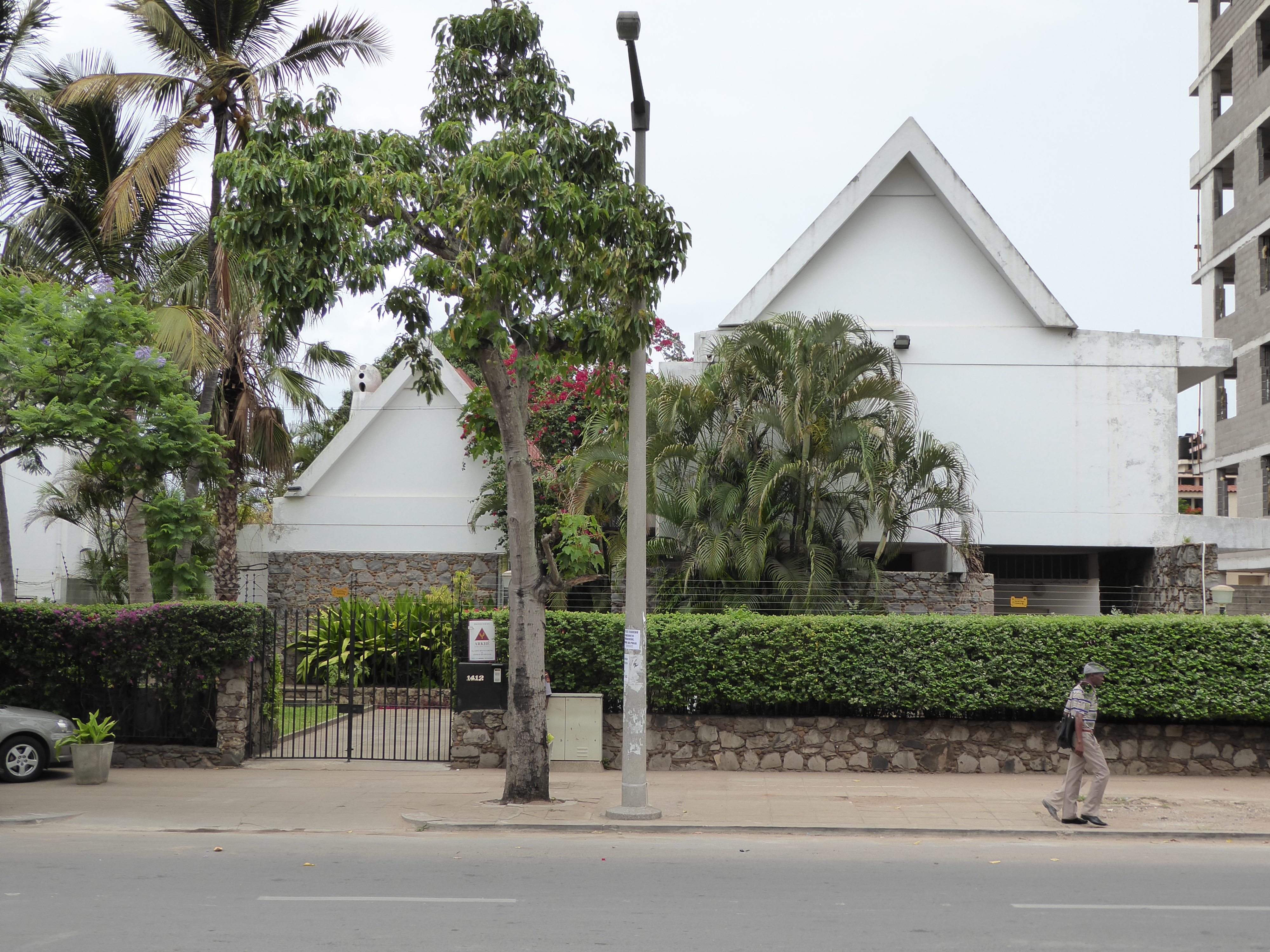 House of the three giraffes, Maputo, Mozambique